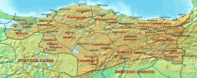 Map of the Diocese of Pontus (Dioecesis Pontica) ca. 400 AD, showing the subordinate provinces and the major cities.